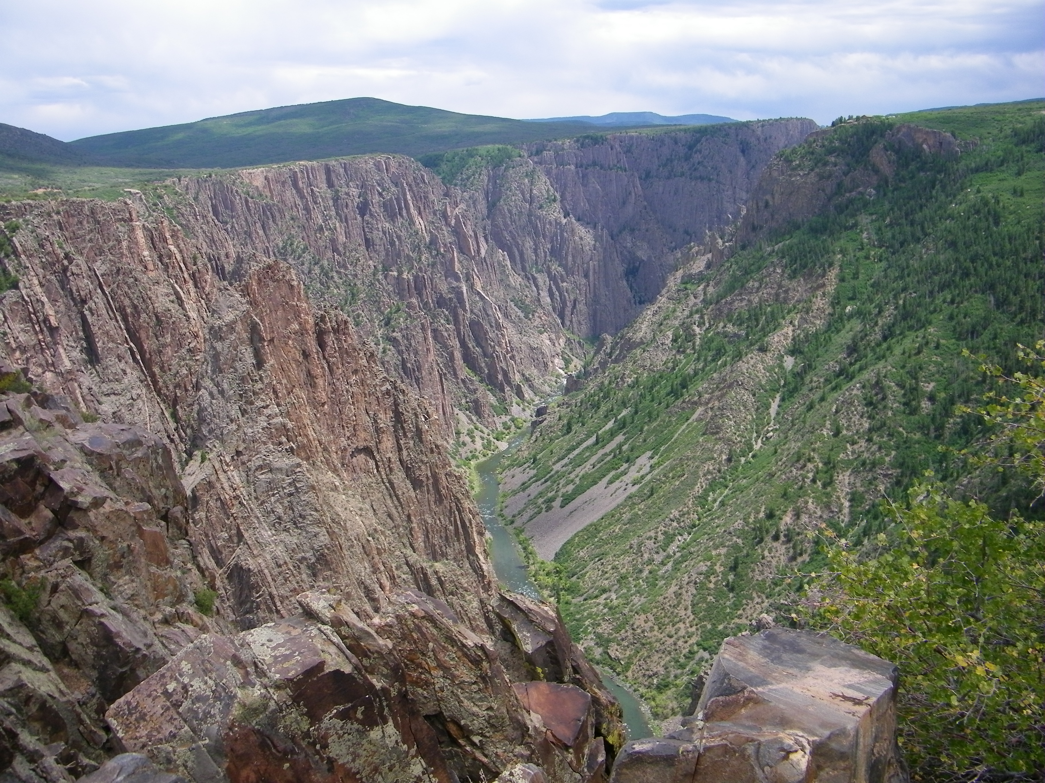 June 2010 at Black Canyon of the Gunnison, CO